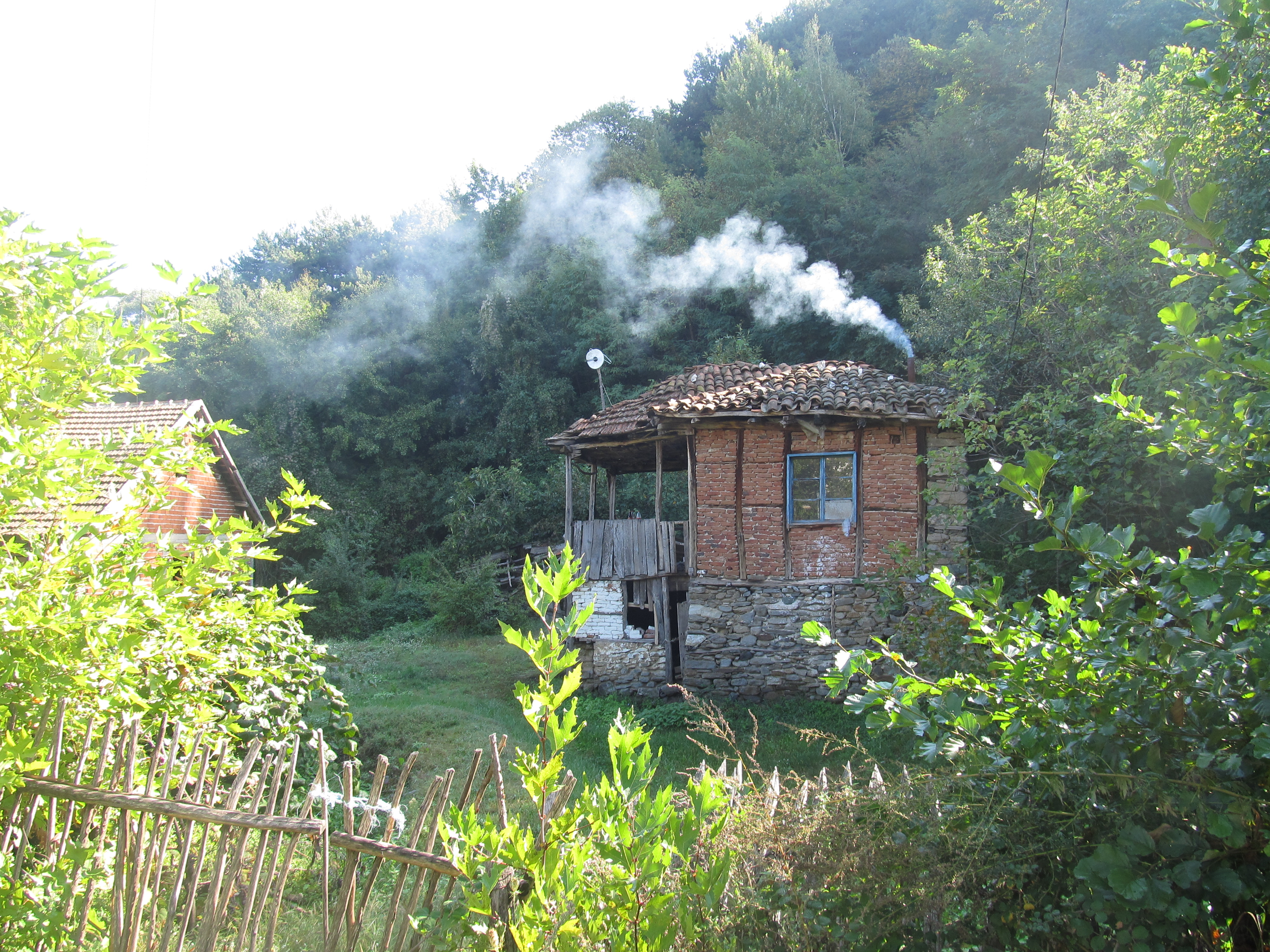 Old house in Smolari, Macedonia